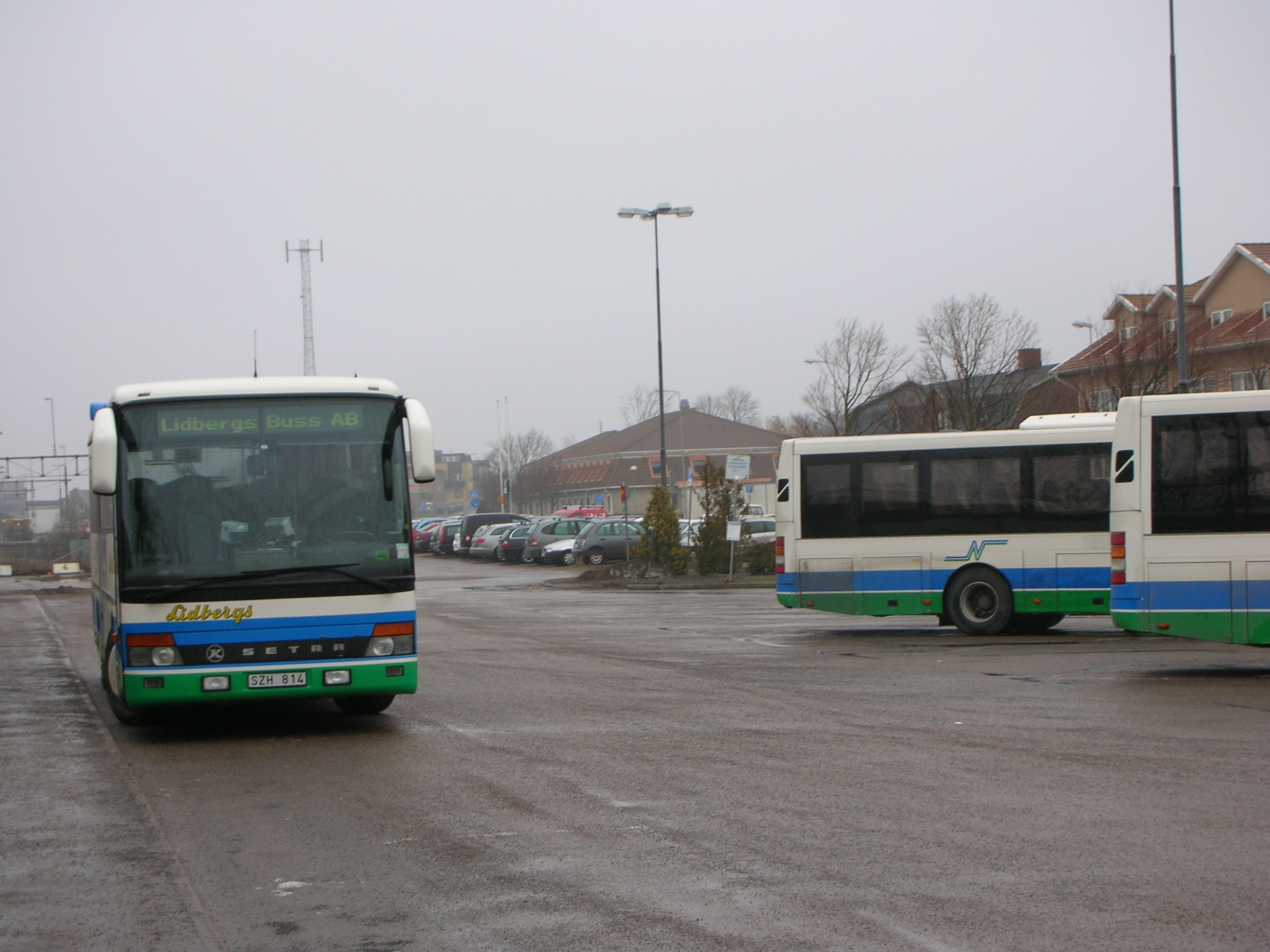 Buses at Varberg Railway Station, Sweden.